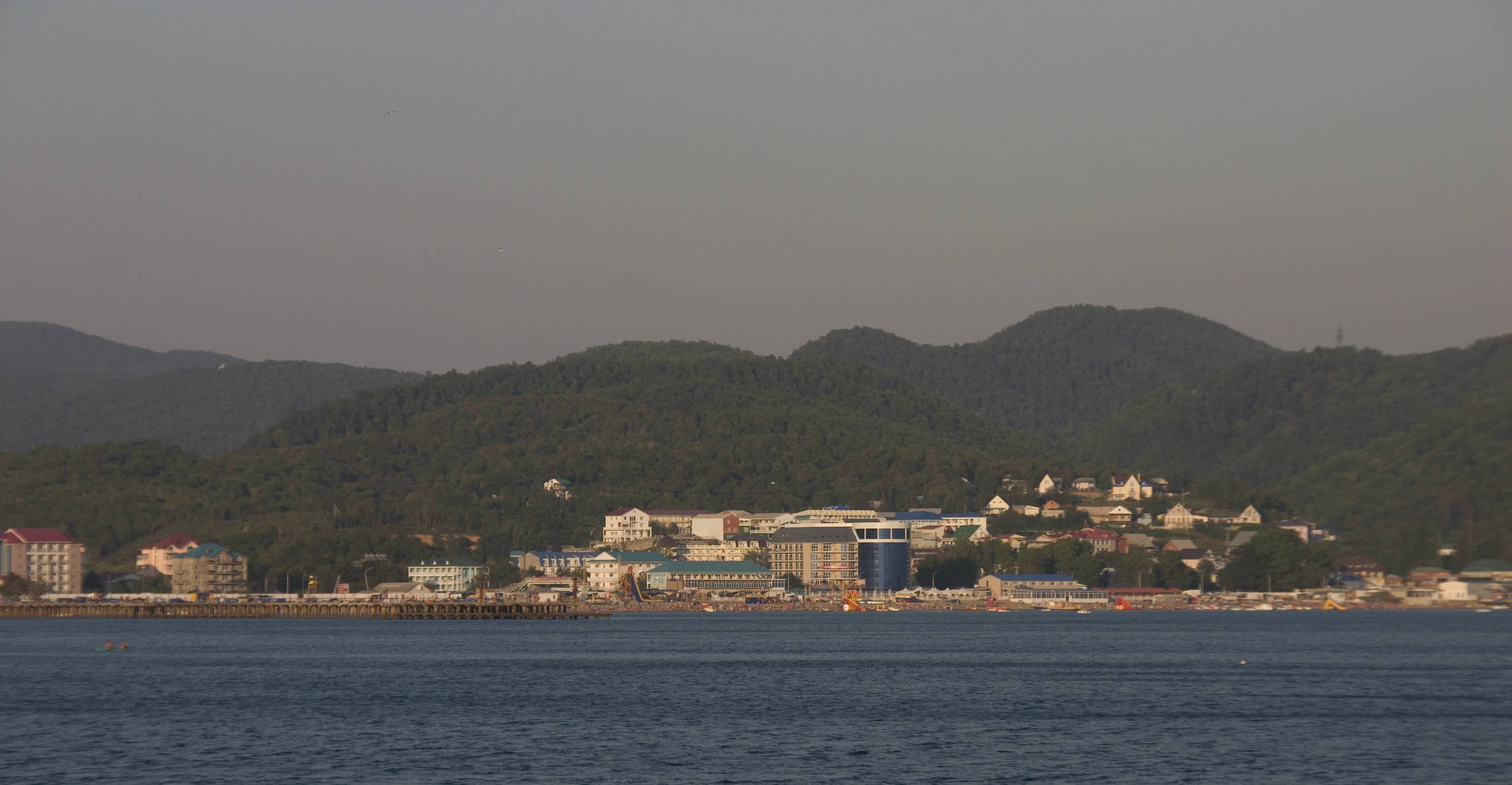 Russia, Krasnodarskiy Kray, Lermontovo, small town near Dzhubga